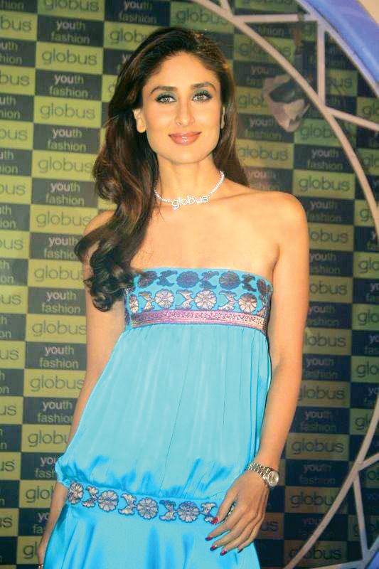 Indian actress Kareena Kapoor at the launch of Globus' clothing chain